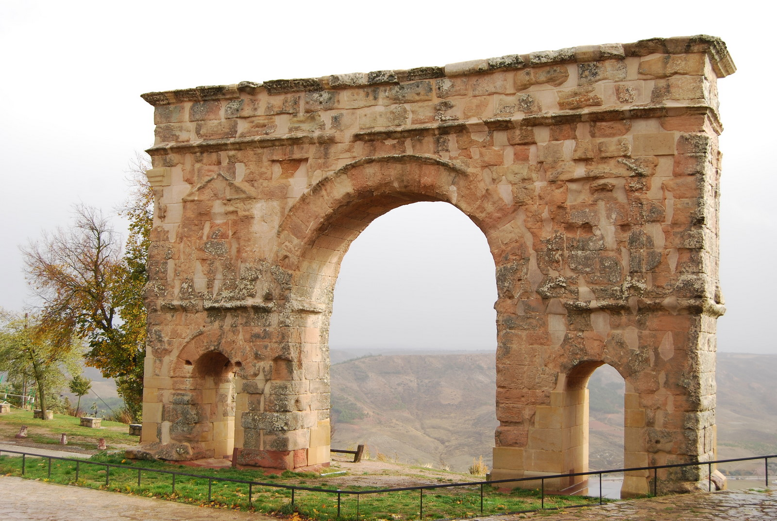 Ancient Roman triumphal arch of Medinaceli. Province of Soria, Spain.